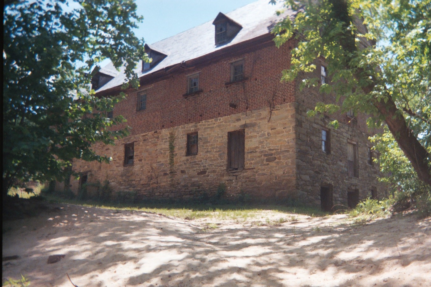 Photograph by Tom da Silva